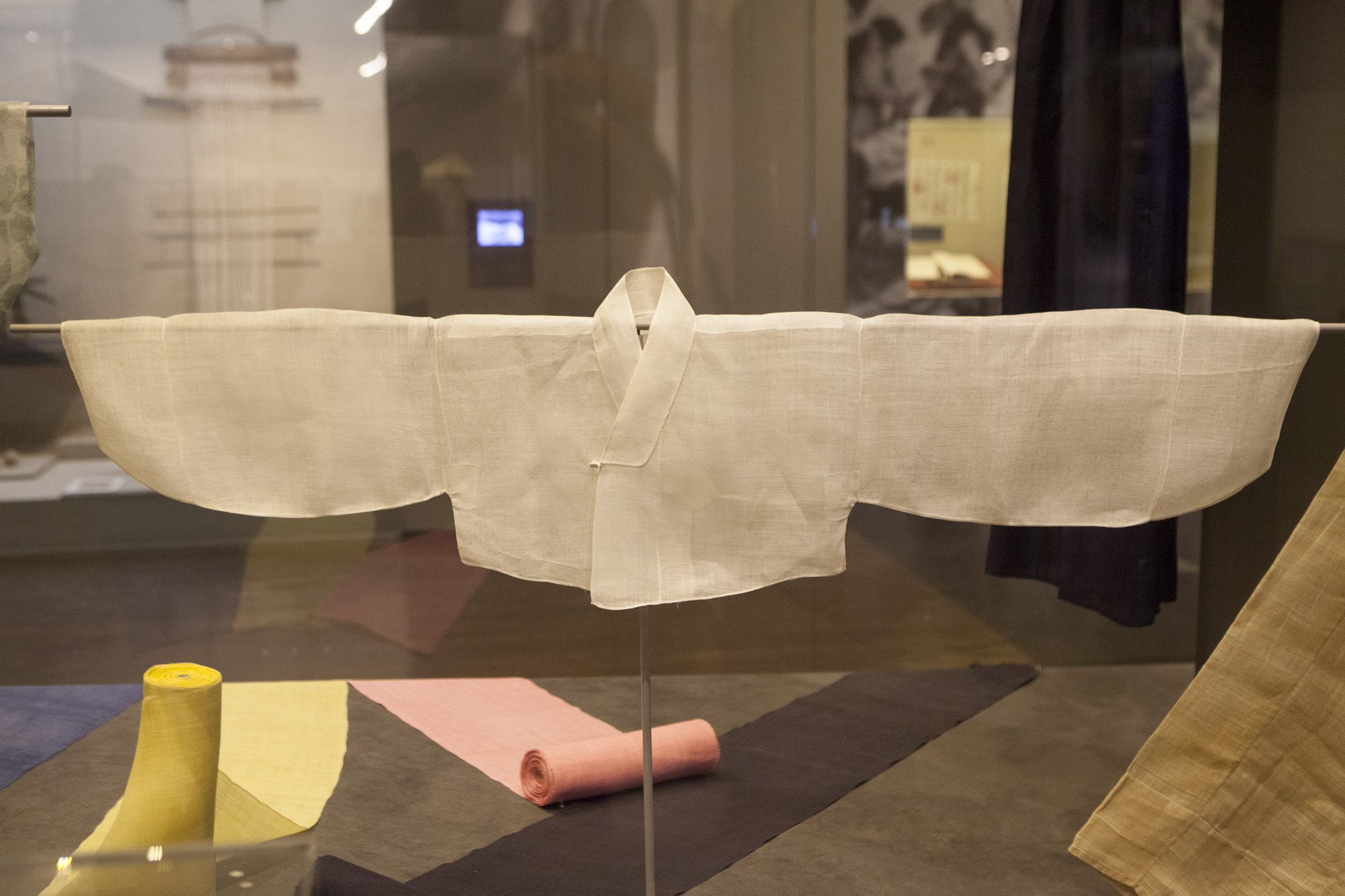 Jeoksam (outer shirt)